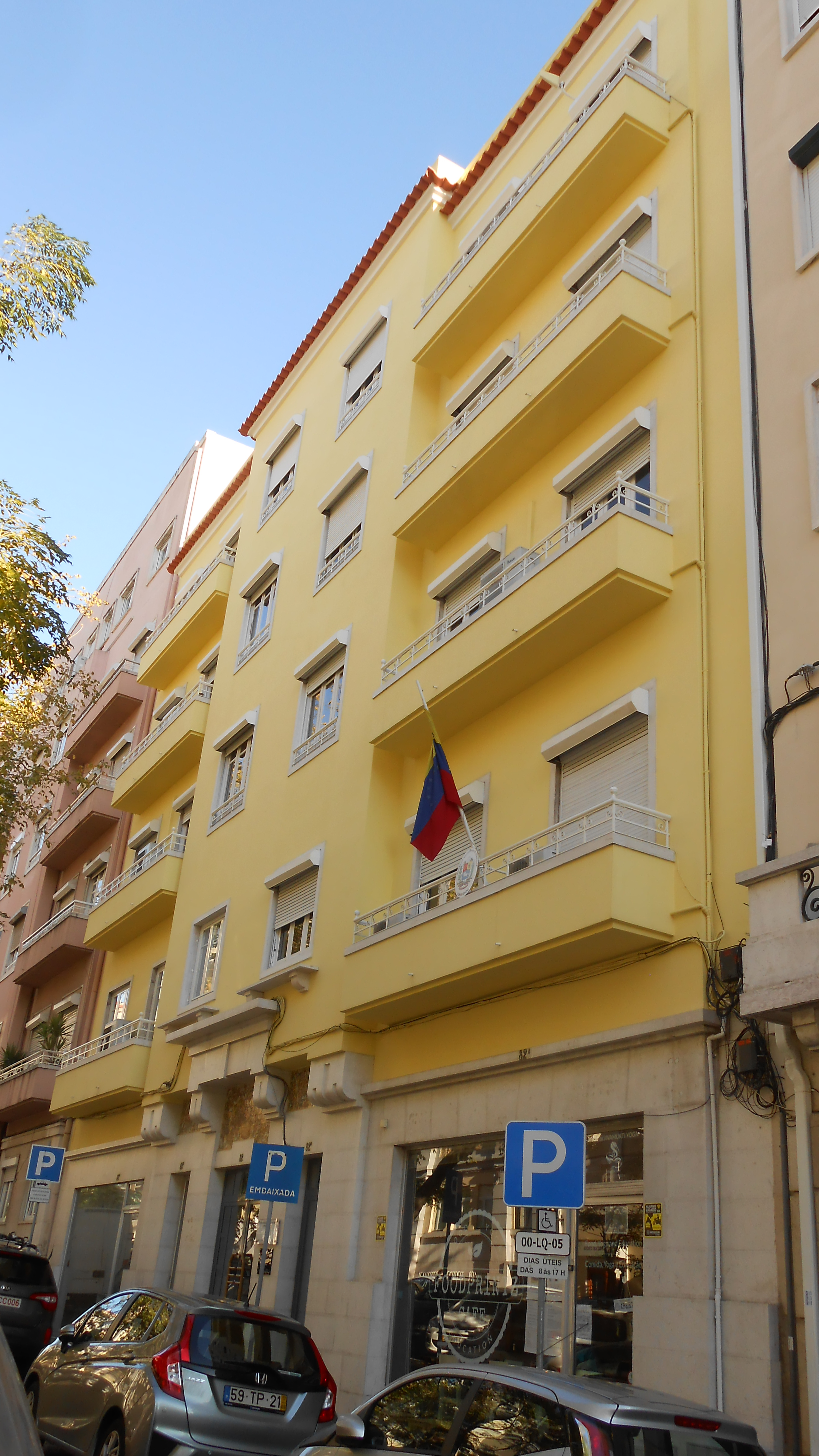 The venezuelan consulate in Lisbon.